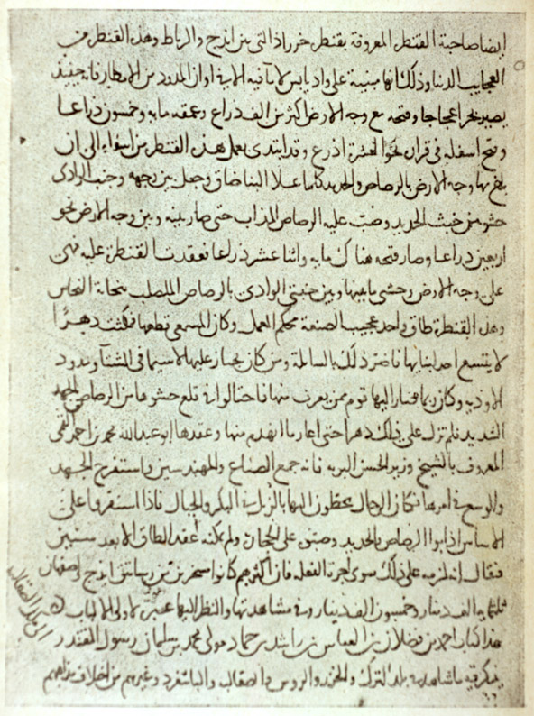 unidentified manuscript page, supposedly containing part of Ahmad ibn Fadlan's Account; possibly Ridawiya Library, MS 5229 (13th century)